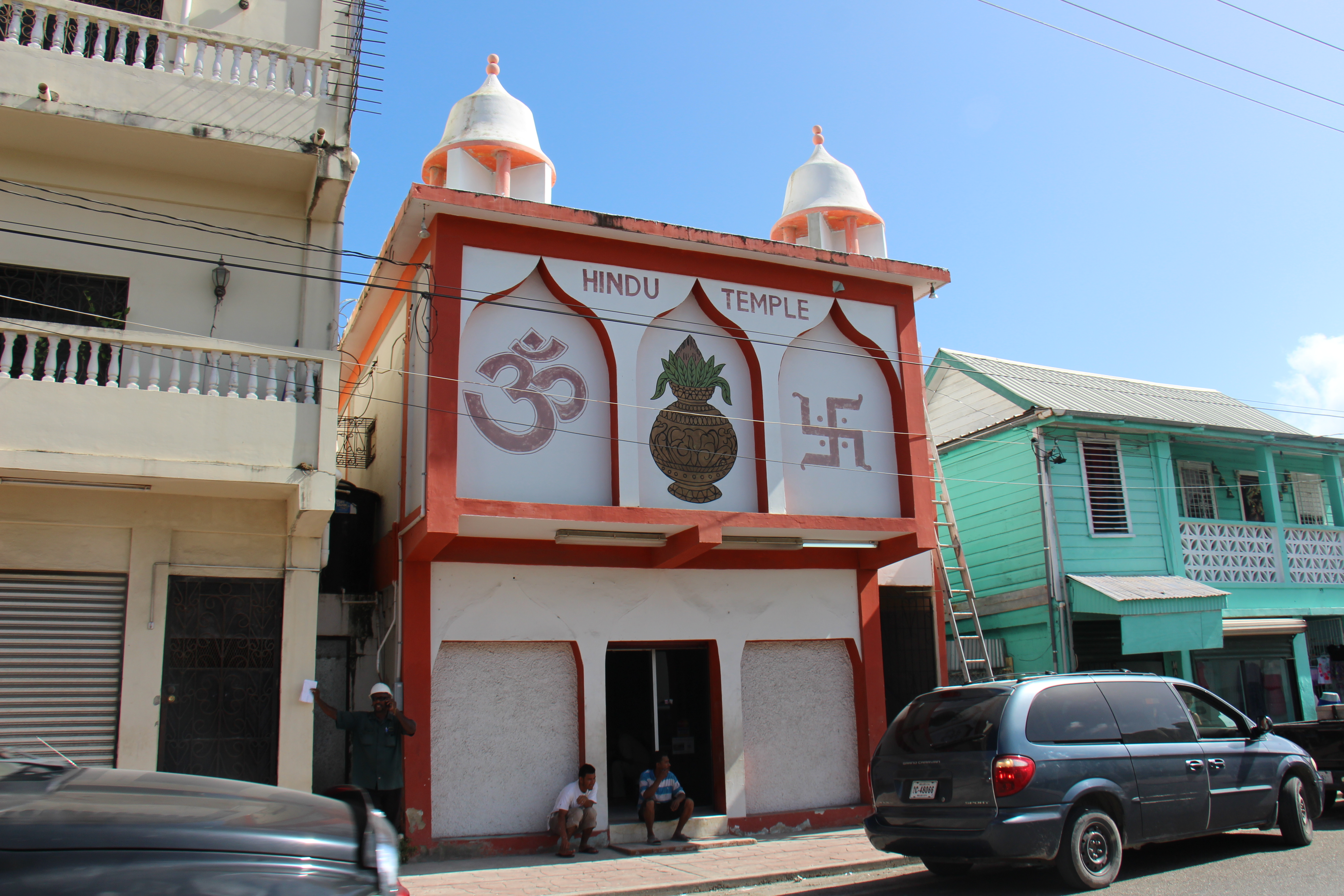 Belize City, Belize.